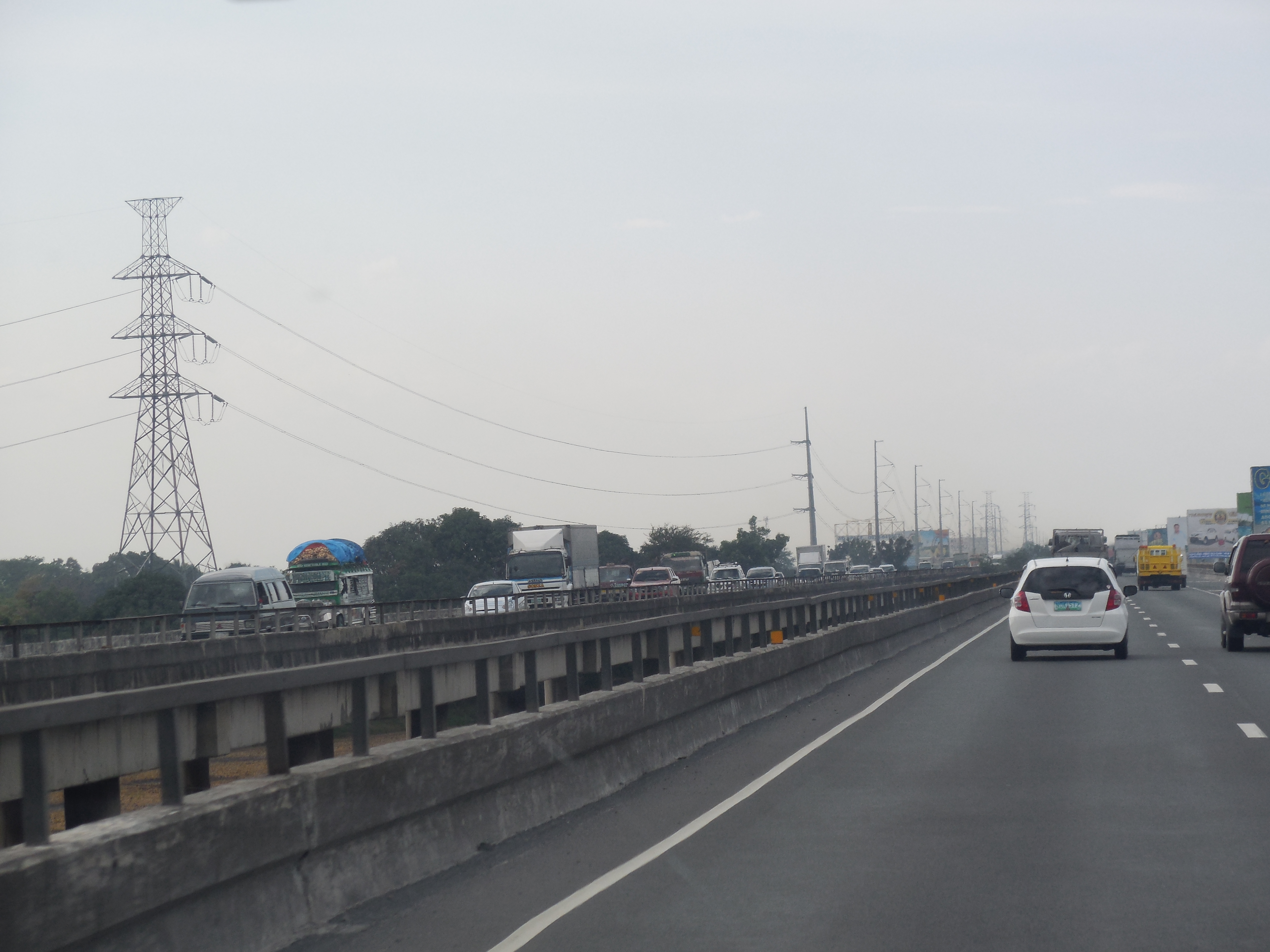 Candaba Viaduct in Candaba, Pampanga, the longest bridge of any type in the Philippines.